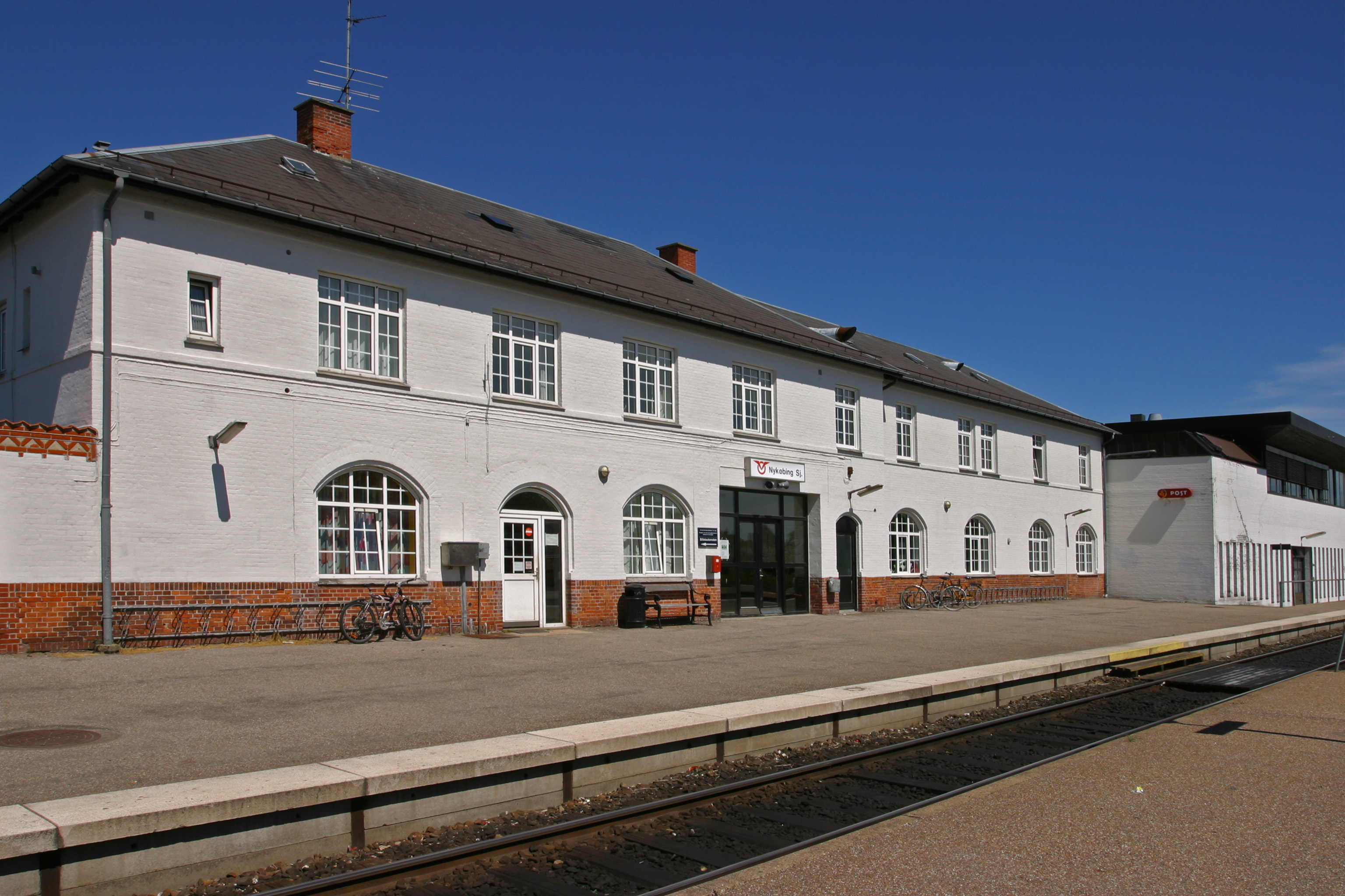 Picture of Nykøbing Sjælland Railway Station (Nykøbing Sjælland - Denmark)